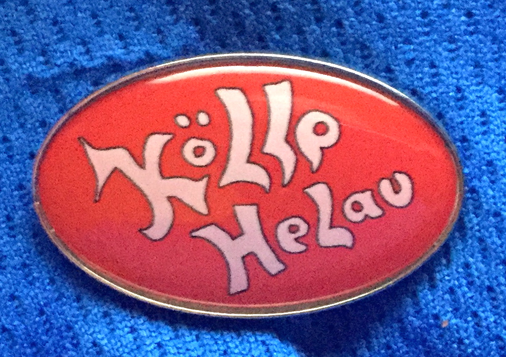 Karneval-Sticker Cologne, Köln, Keulen